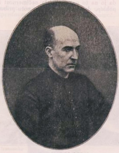 Luis Coloma (Jerez de la Frontera, January 1851 - Madrid, 1914) was a Spanish author known for creating the character "Ratoncito Pérez".